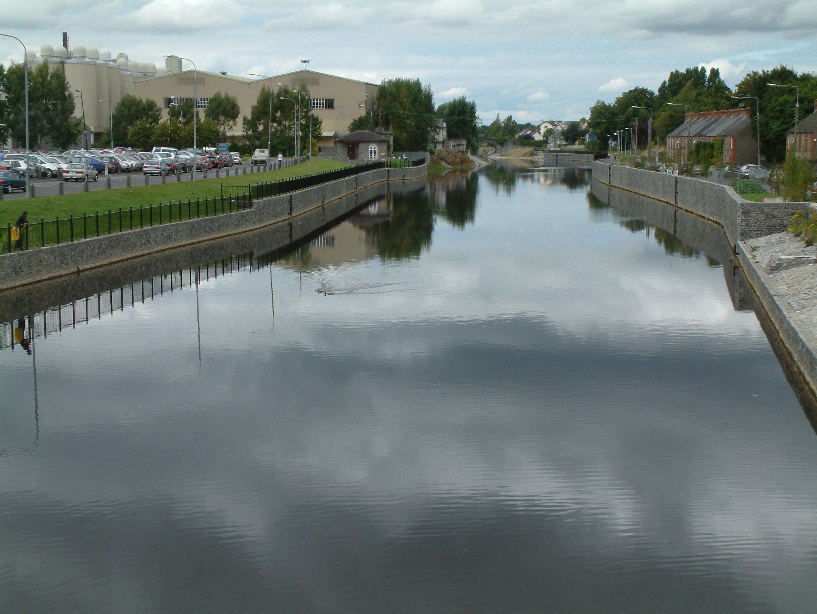 The River Nore in Kilkenny, Ireland, 27 August 2005. (Smithwicks Brewery on the left) Photograph by Flickr user Irish Typepad. From page Licensing information listed under "Additional Information" on source page.